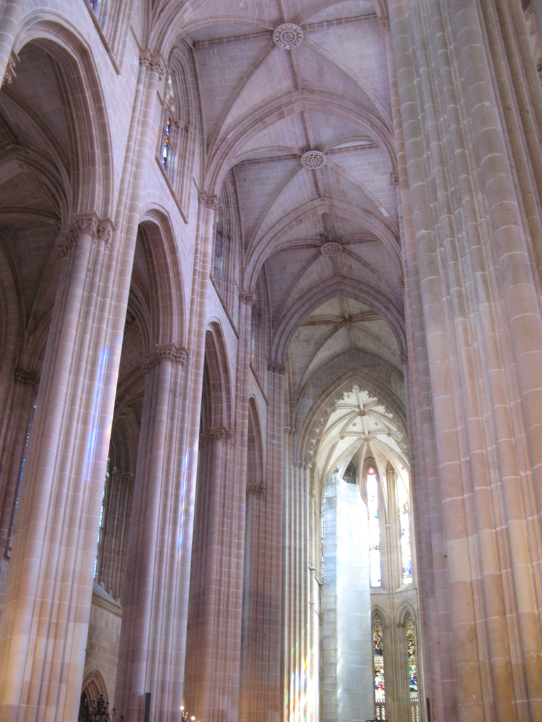 Nave of Batalha Monastery, Portugal